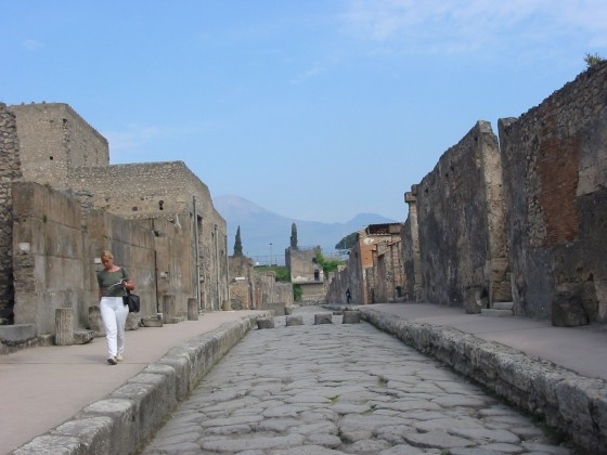 picture of Pompei, taken by myself